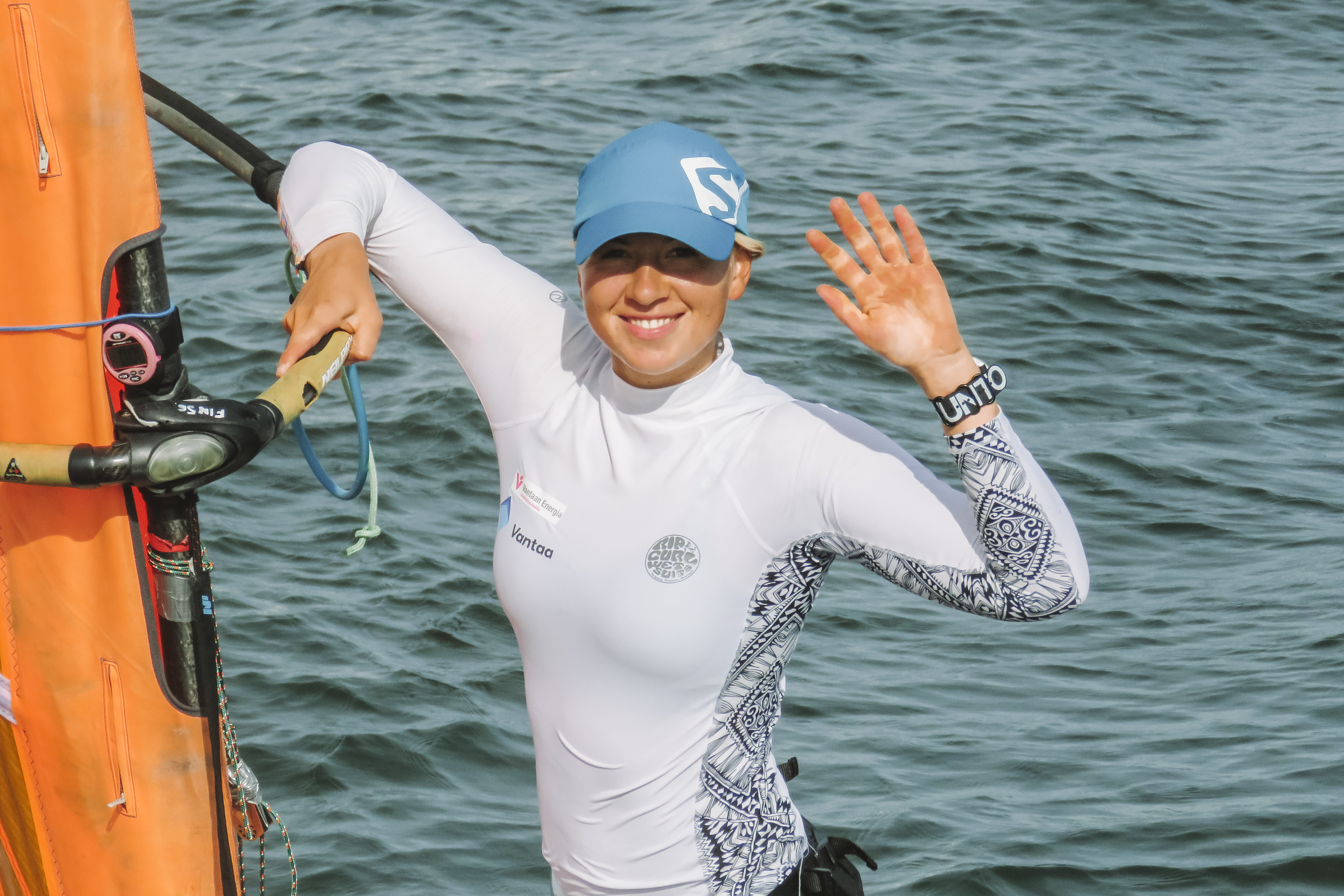 Aleksandra Blinnikka participating in annual Tour de Laru.